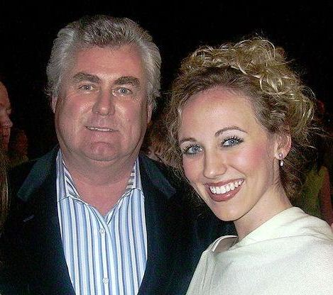 Ove Johansson and his daughter Annika Johansson